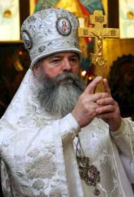 Constantin (Goryanov), bishop of Kurgan and Shadrinsk